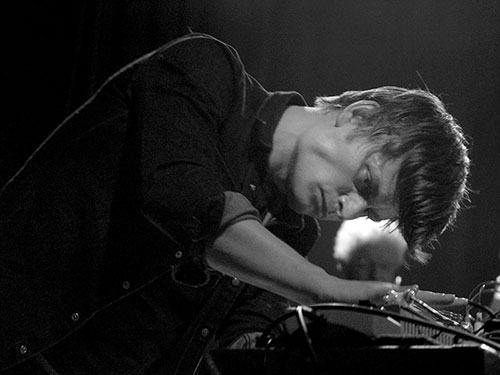 Martin Hederos playing in Mats Gustafssons big band orchestra FIRE